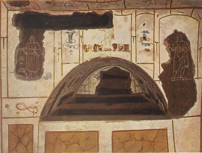 Arcosolium in catacombe di Domitilla (photo by Wilpert, Joseph. Die Malereien der Katakomben Roms, 1903)